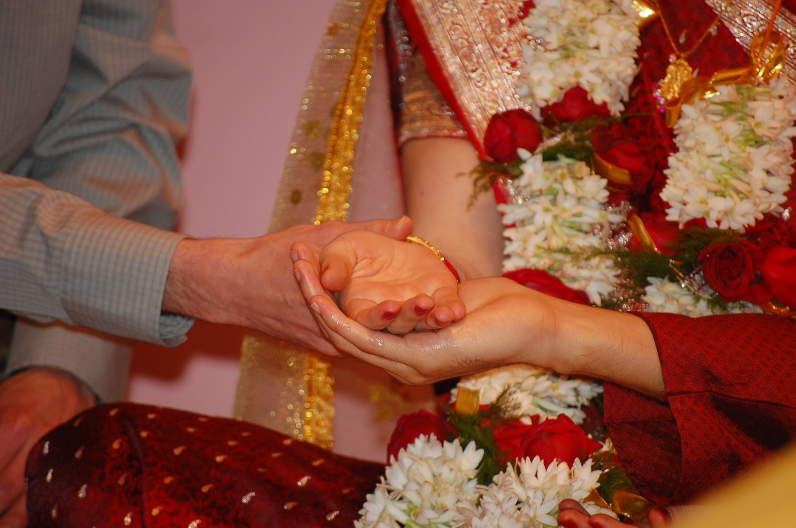 Kanya Daan ceremony during Hindu wedding: The father of the bride ritually puts his daughter's hand into the hand of the bridegroom and thus gives her away to her new husband.